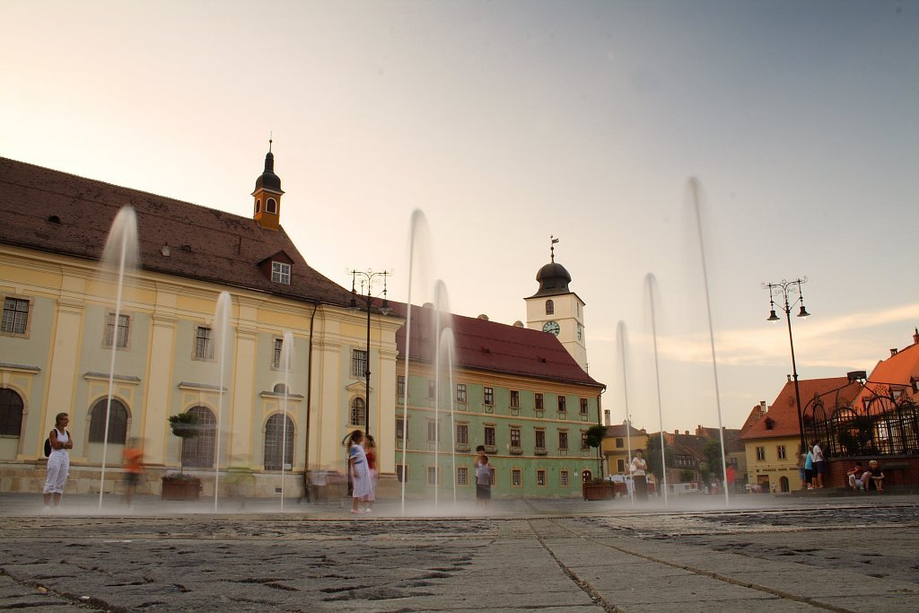 The Large Square, Sibiu